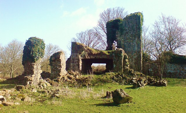 Haroldston House ruins Once one of the grandest houses in Pembrokeshire. Built by the Harold family in the late 13th century and home to the powerful Perrot family from 1370 to the early 18th century. Sir John Perrot was born here in 1530. A favourite of Queen Elizabeth until she locked him in the Tower of London, where he died before he could be executed in September 1592. It was enlarged and modernised by the Perrots who added two new halls, a walled courtyard and a 5m squared gatehouse which housed a spiral staircase and a garderobe. In the 17th century it became a self contained tower house and was later known as the Stewards Tower. In the 18th century Haroldston was owned by the Pakington family and leased out. It sadly fell into decay but the Stewards Tower was occupied until the late 19th century. The gardens attached to the great house were reputed to be some of the finest formal Tudor gardens in Wales. Sadly the area now has as its neighbours a sewage works, railway line and main road to Milford Haven.